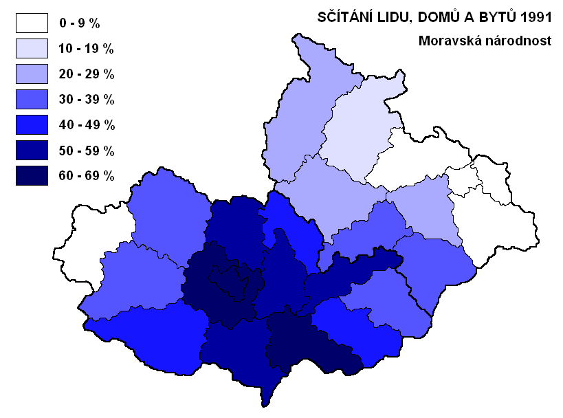 Moravian and Silesian ethnicity in Czech republic in 1991